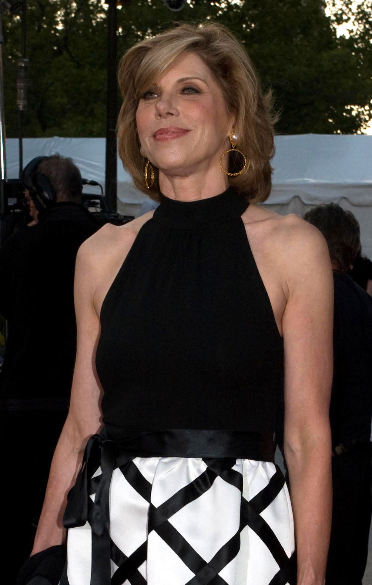 Christine Baranski at the Metropolitan Opera opening in 2008. © Rubenstein, photographer Martyna Borkowski